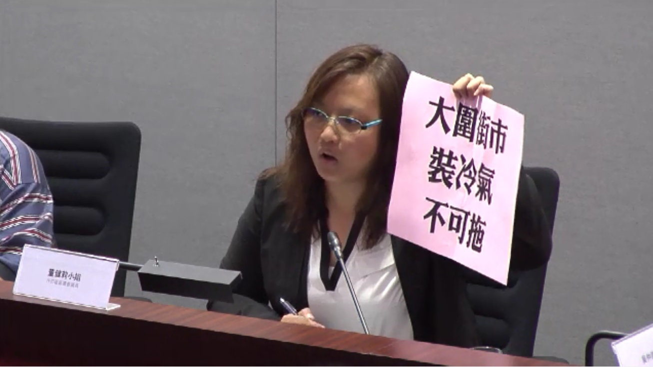 Tung Kin Lei